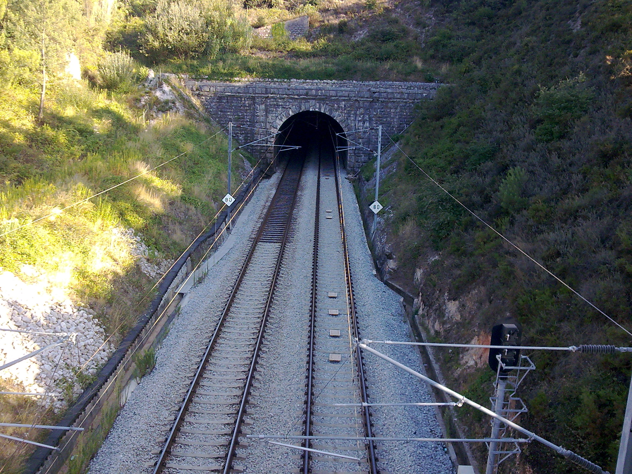 Chão de Maçãs railway tunnel, Sabacheira, Tomar, north side